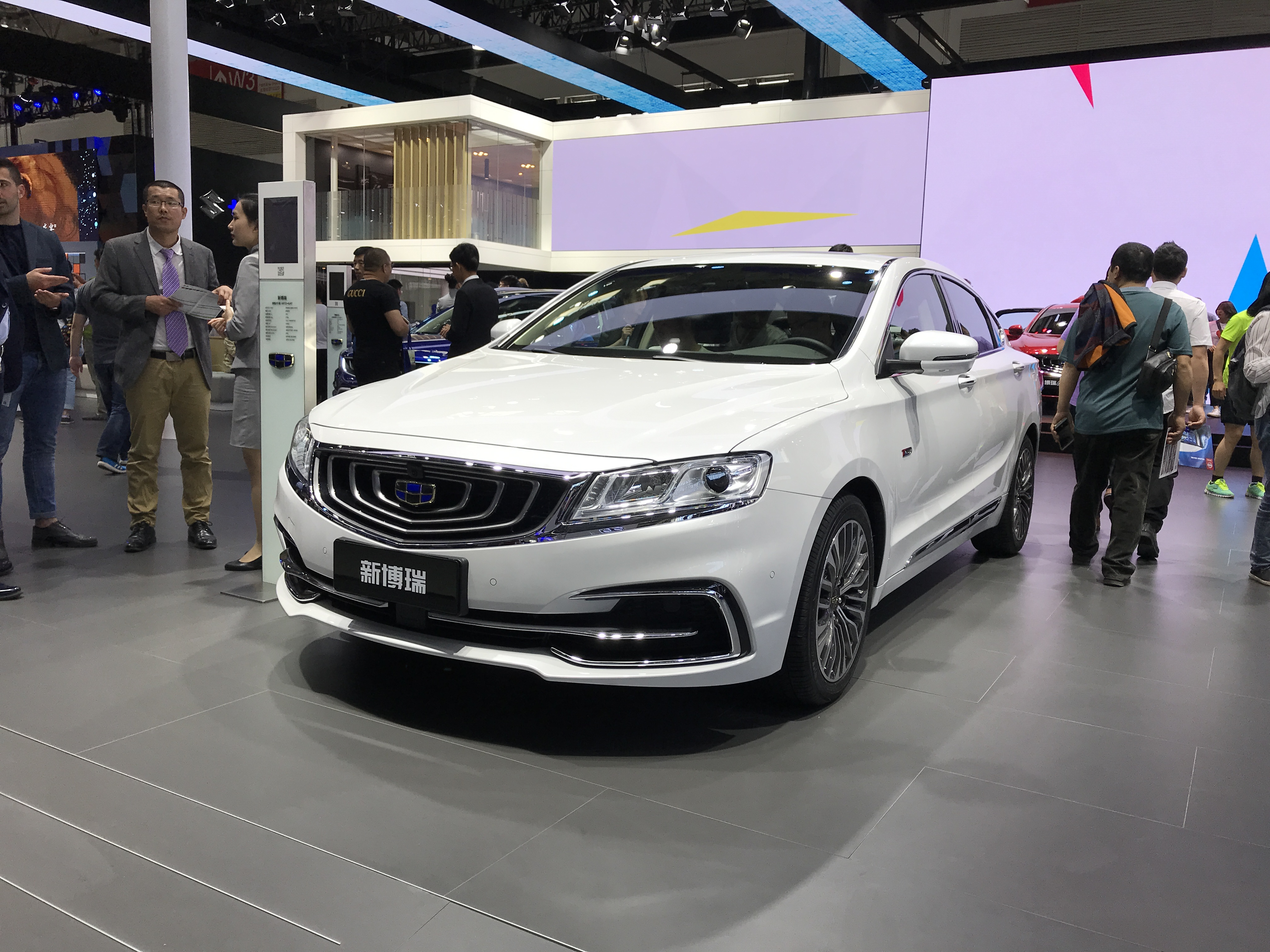 Geely Borui facelift